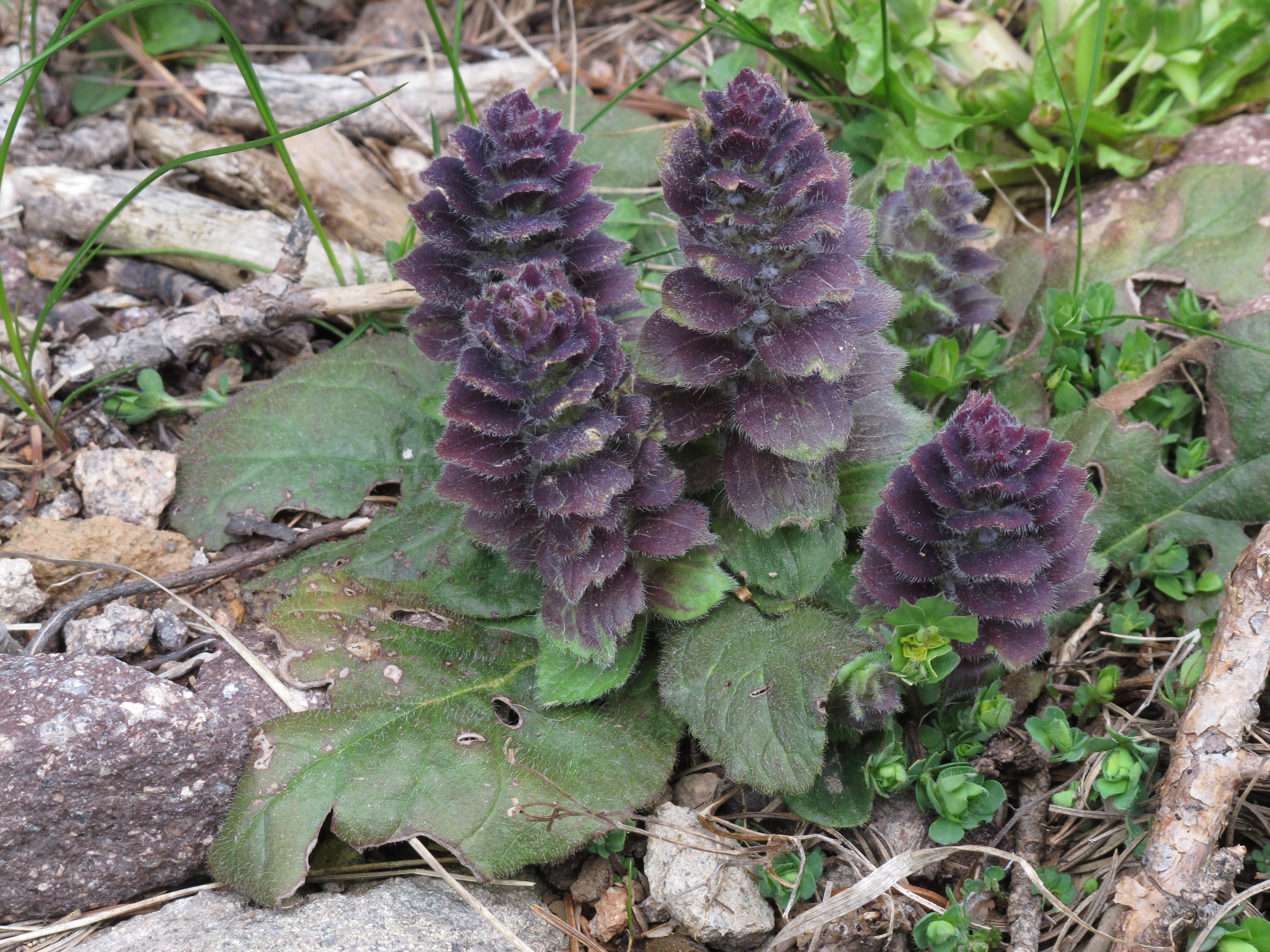 Pyramidal bugle (Ajuga pyramidalis), Raschoetz, South Tyrol, Italy